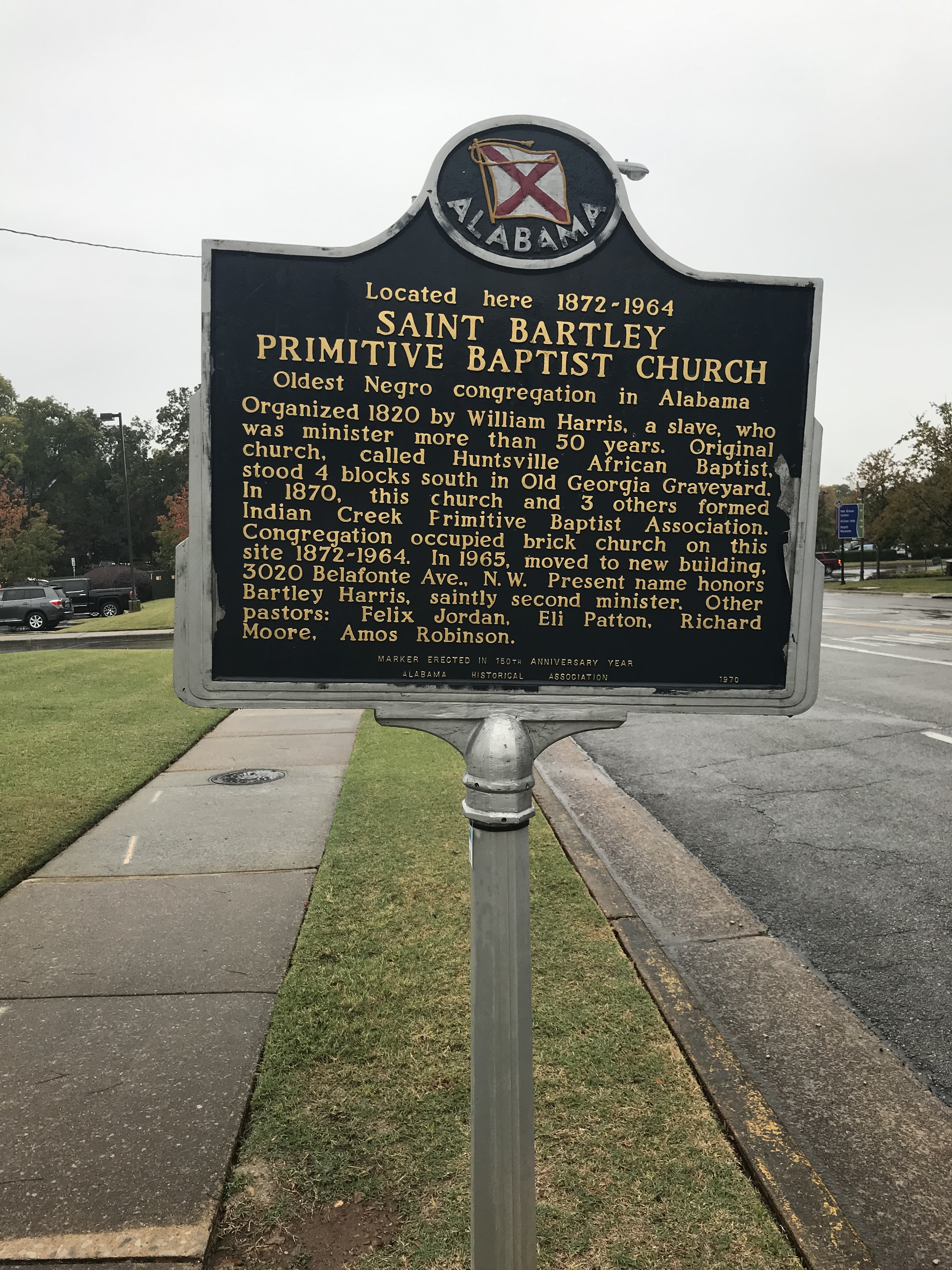 This is a historic marker in Huntsville, Alabama, that marks the site of the original Saint Bartley Primitive Baptist Church, which was organized in 1820.